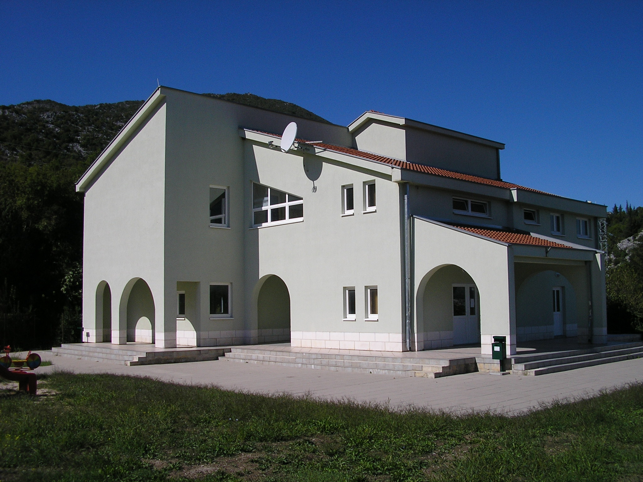 Elementary school in Momići